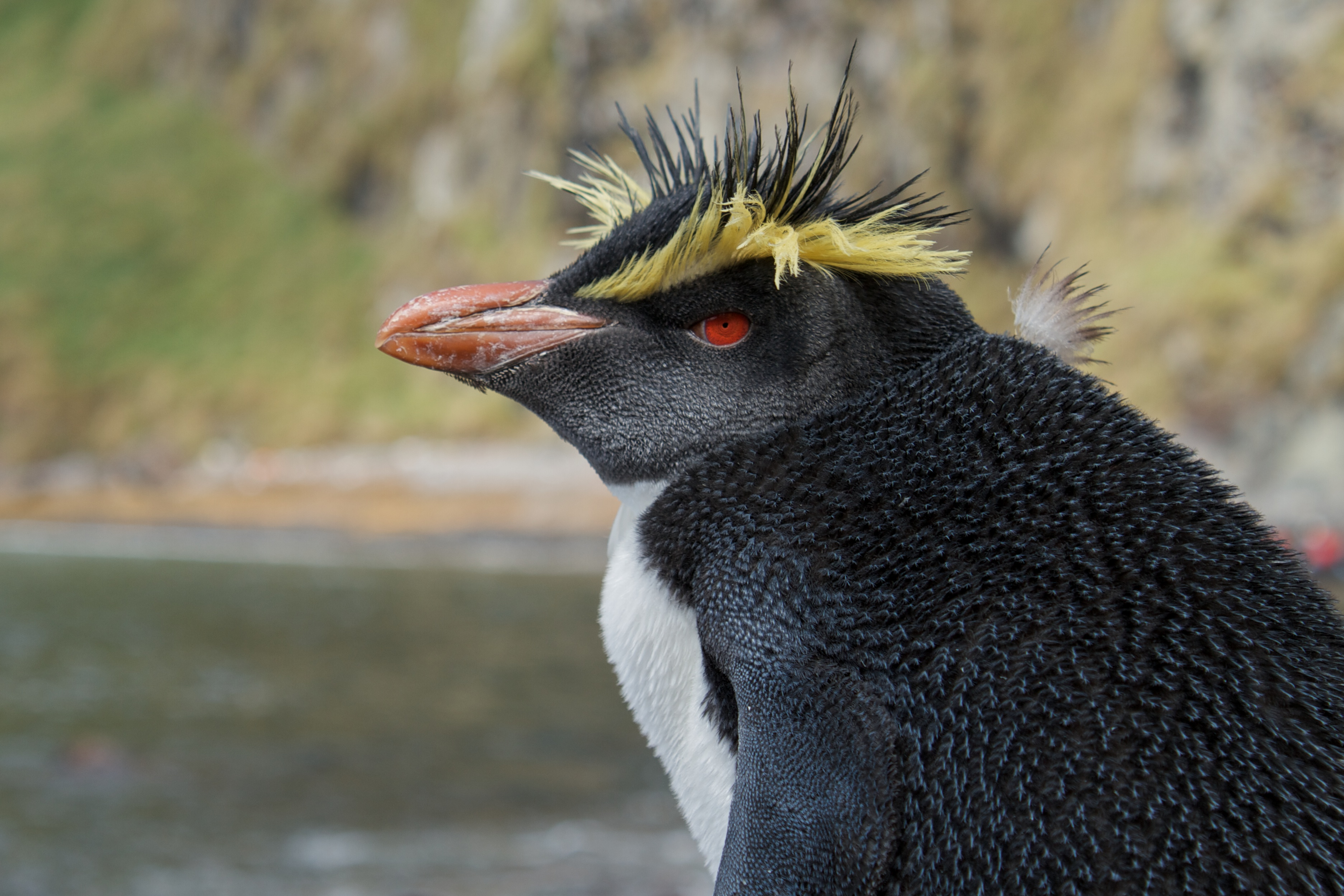 Northern Rockhopper Penguin on Inaccessible Island.